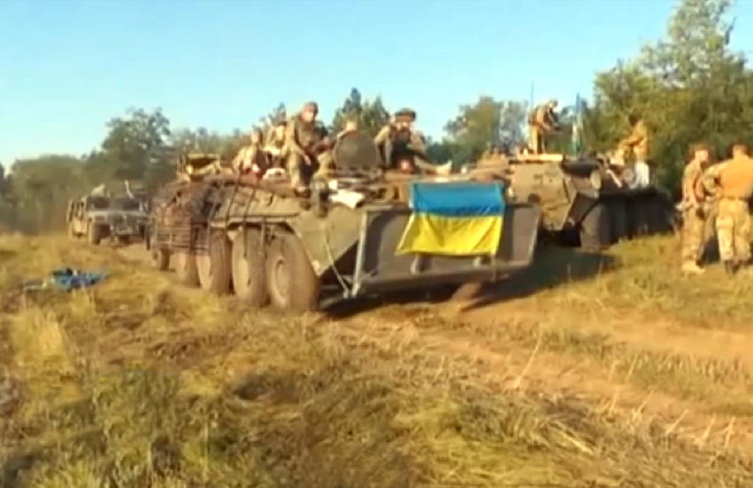 Ukrainian government troops atop of their armoured personal carriers roll on a dirt road in Donbass.